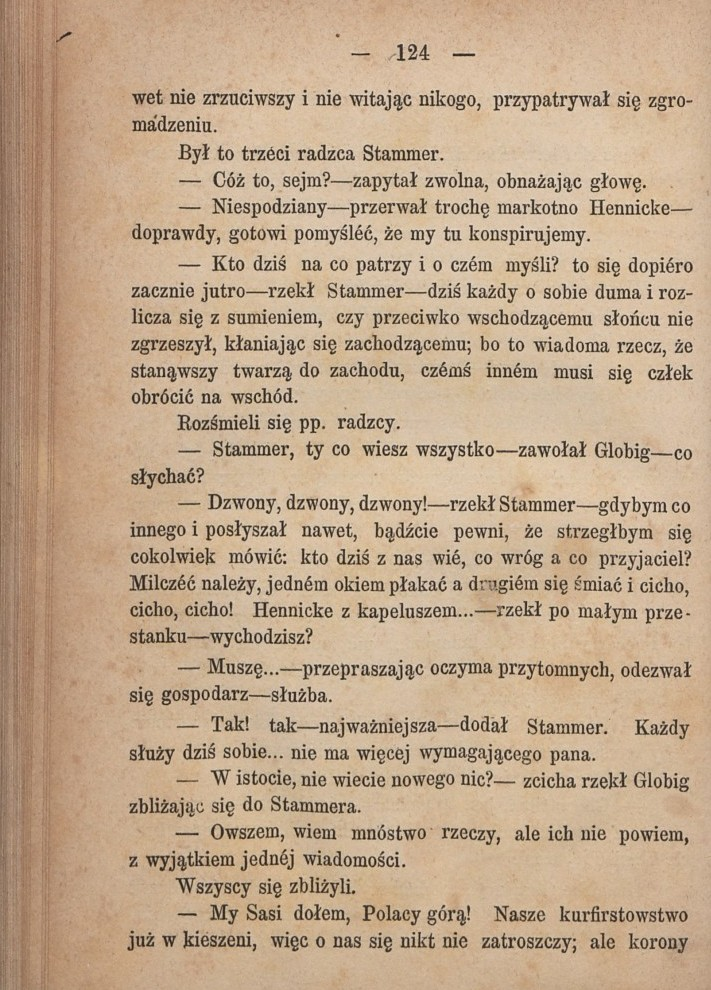 short story